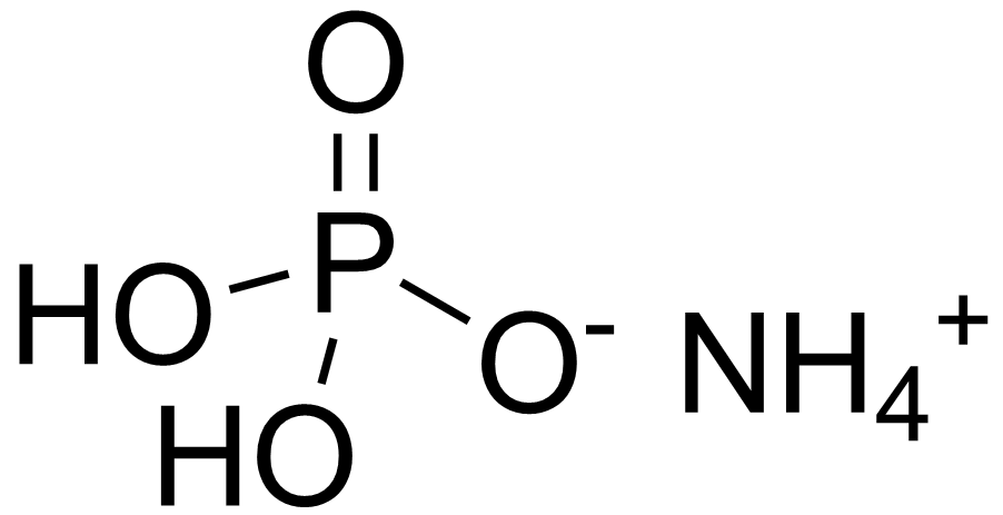 chemical structure of ammonium dihydrogen phosphate